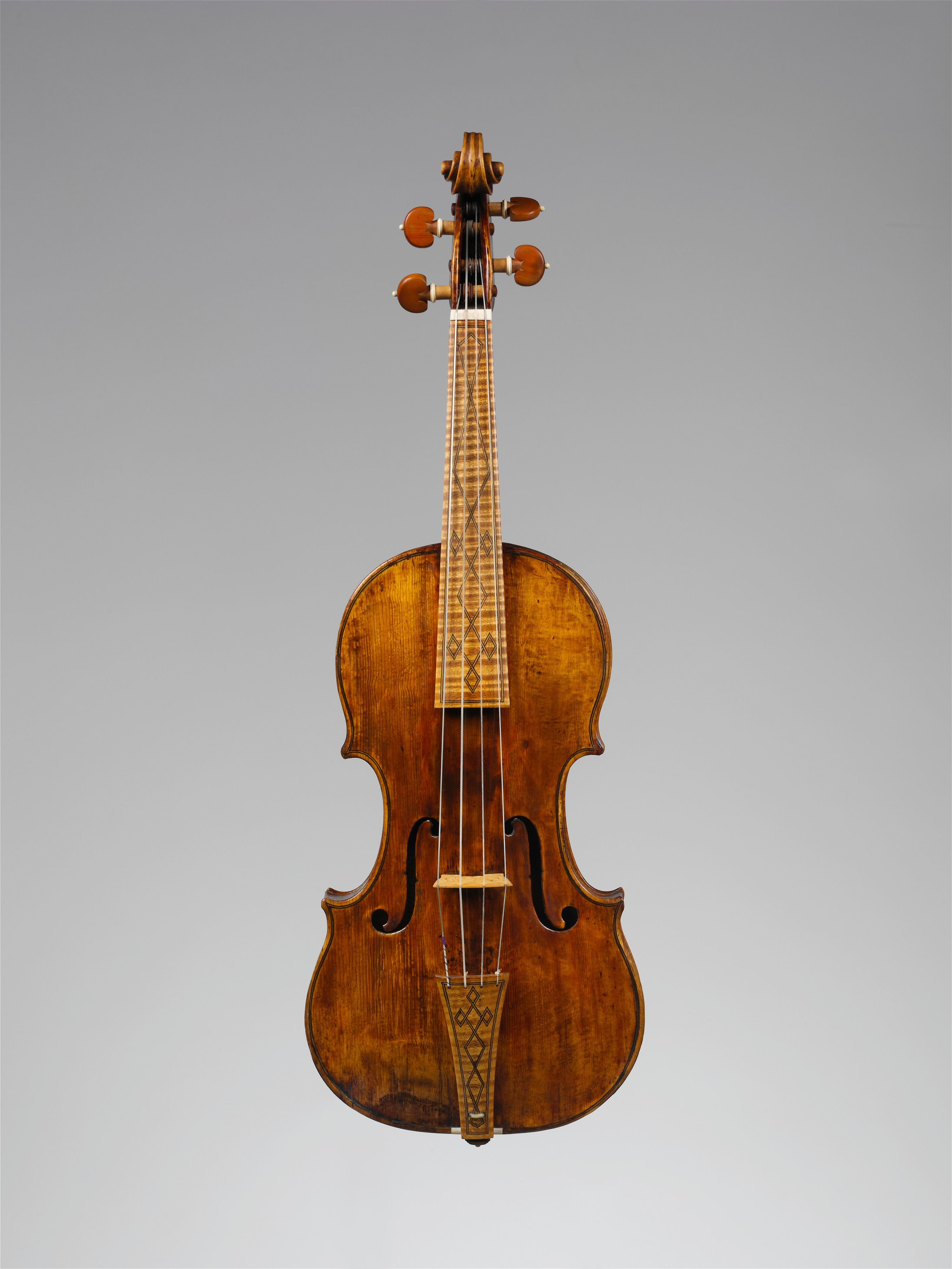 Italian (Cremona); Violin; Chordophone-Lute-bowed-unfretted